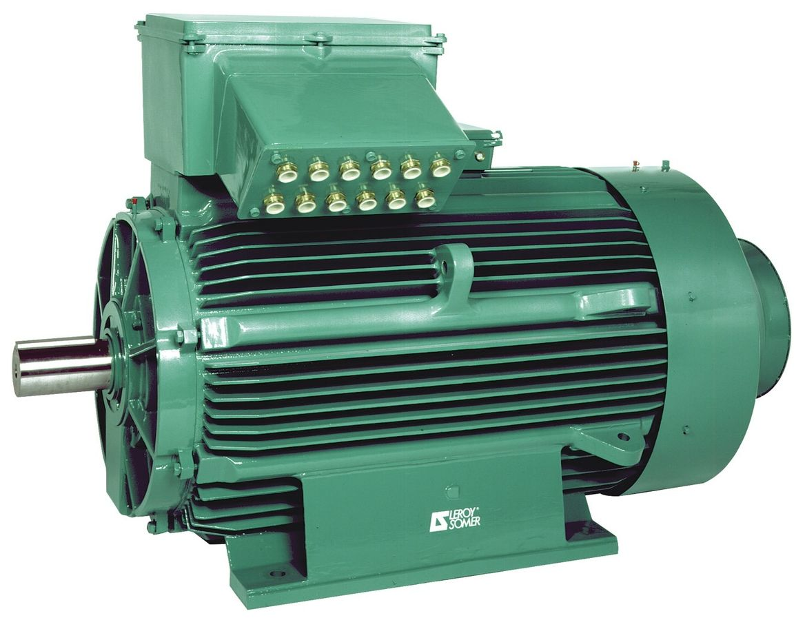 Elektromotori asinkron